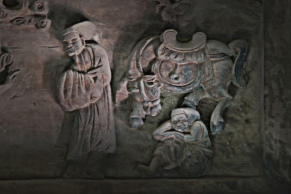 Nghệ An